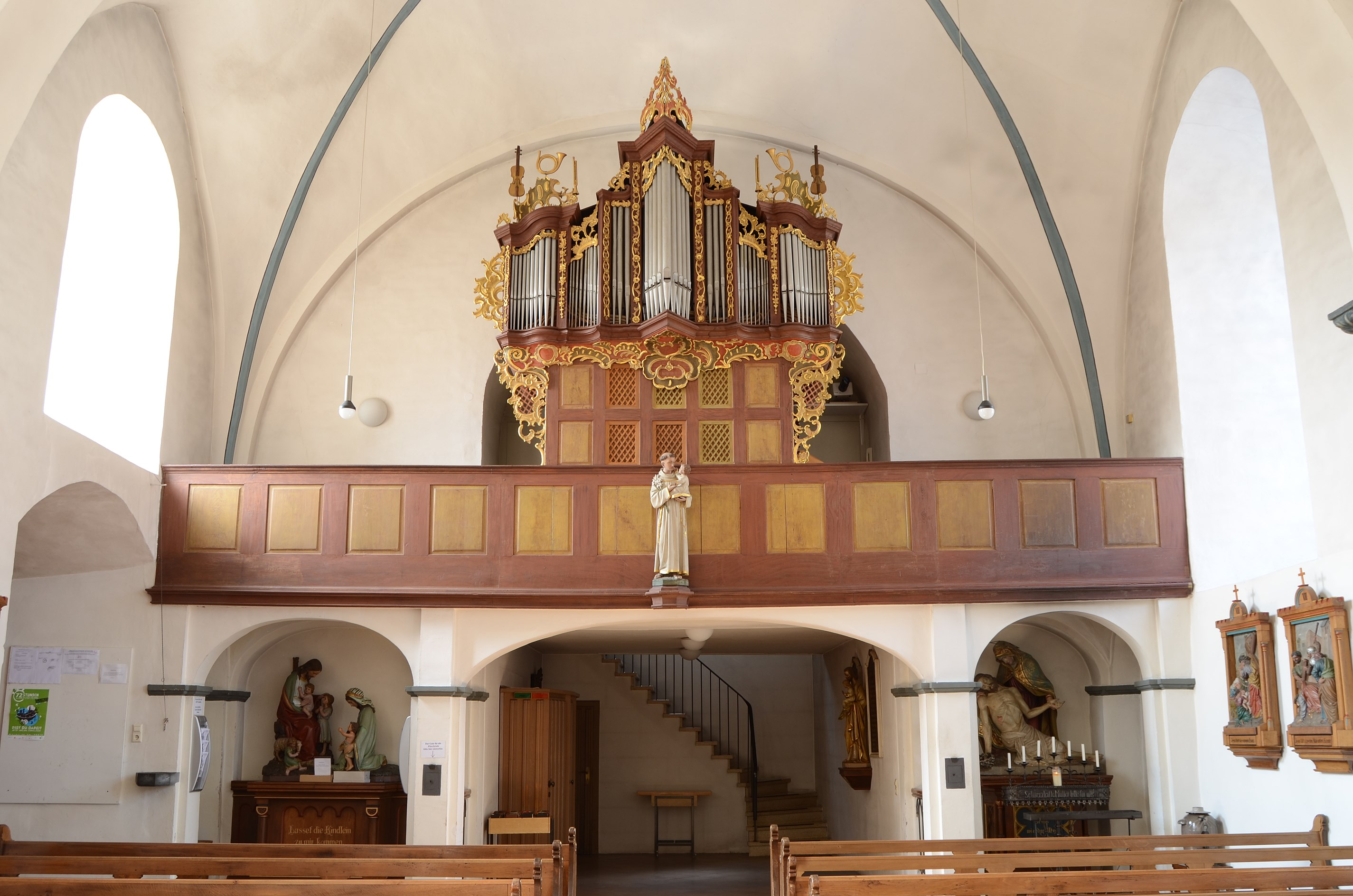 Olsberg (North Rhine-Westphalia, Germany) – district Brunskappel – Catholic Saint Servatius Church – pipe organ with gallery This image shows a heritage building in Germany, located in the North Rhine-Westphalian city Olsberg (no. 40). This photograph was taken with a Nikon D7000